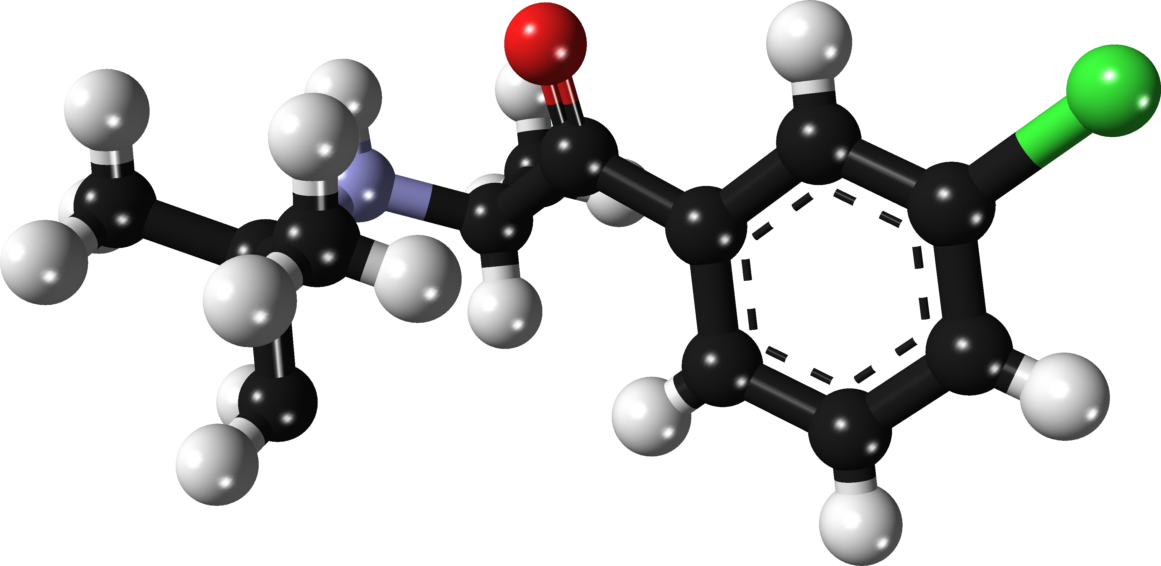 Structure of (S)-bupropion.